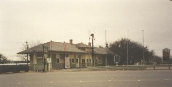 Albany, Texas - RR station